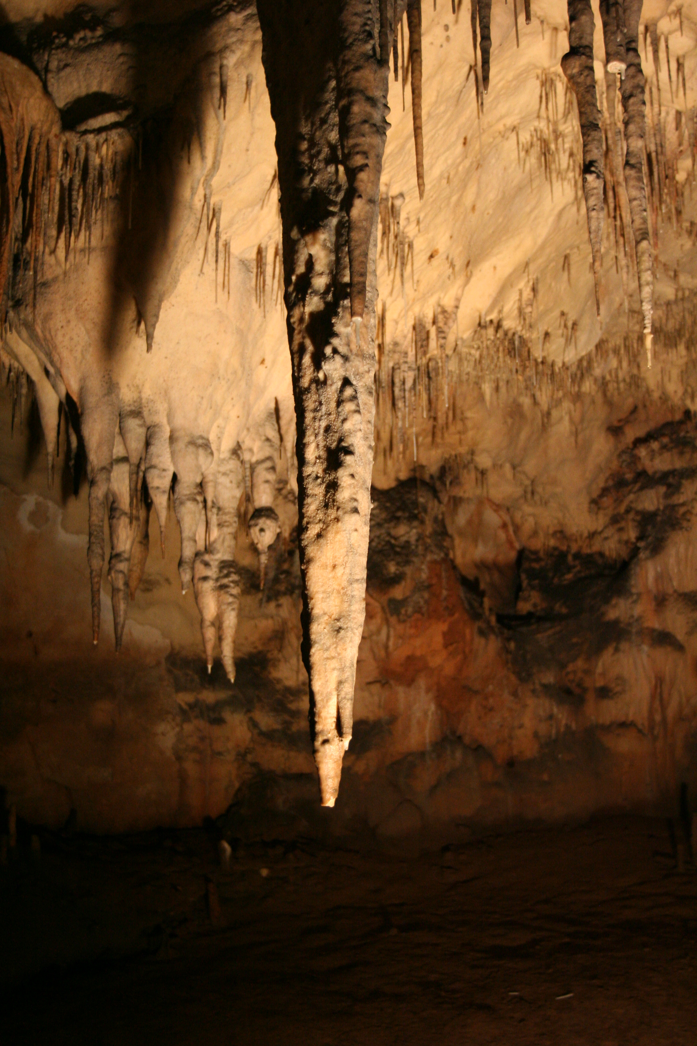 Domica Cave, Slovakia. Taking this photo was made possible through the financial support of Wikimedia Polska.